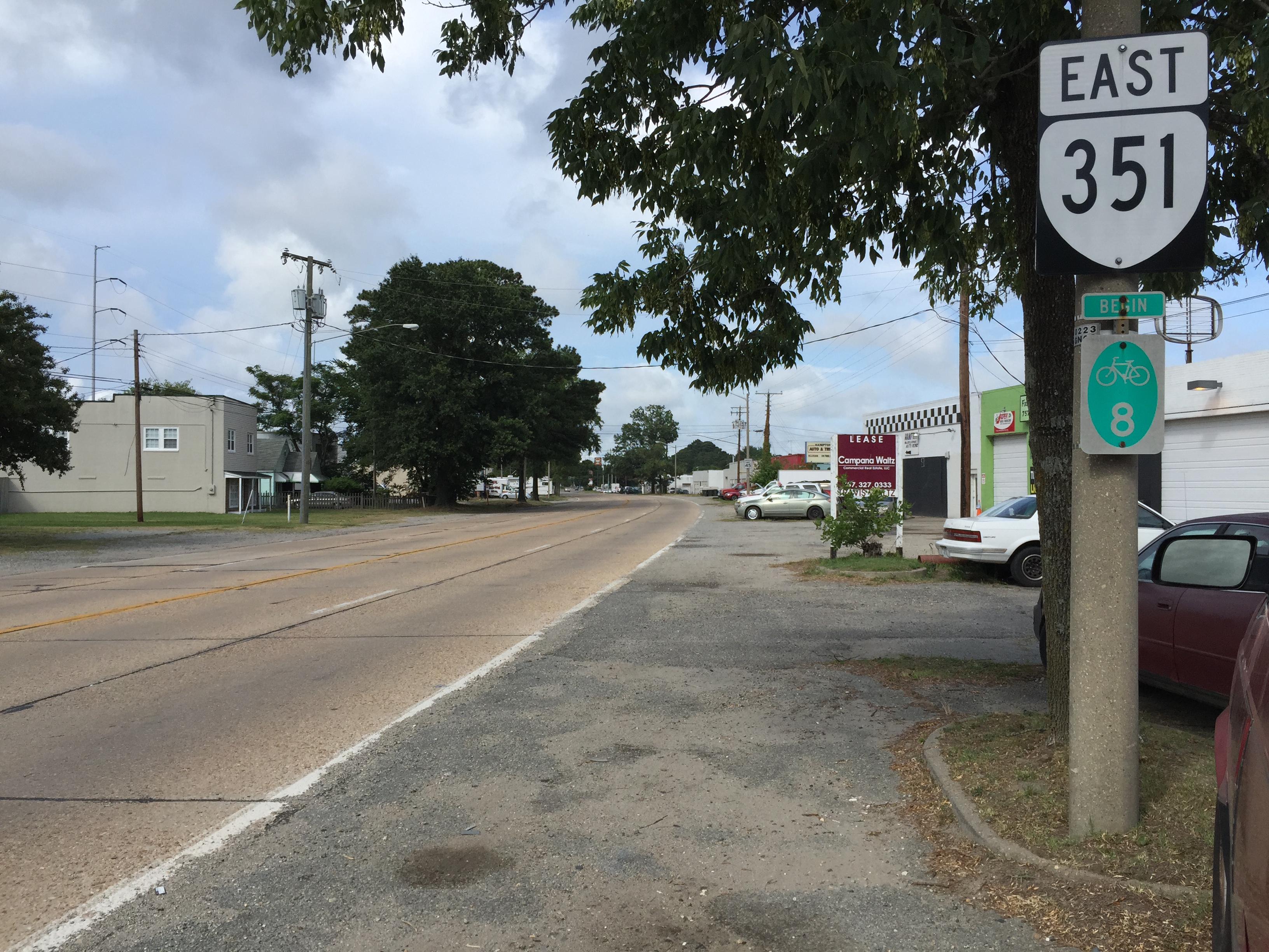 View east along Virginia State Route 351 (Pembroke Avenue) at Parish Avenue in Hampton, Virginia